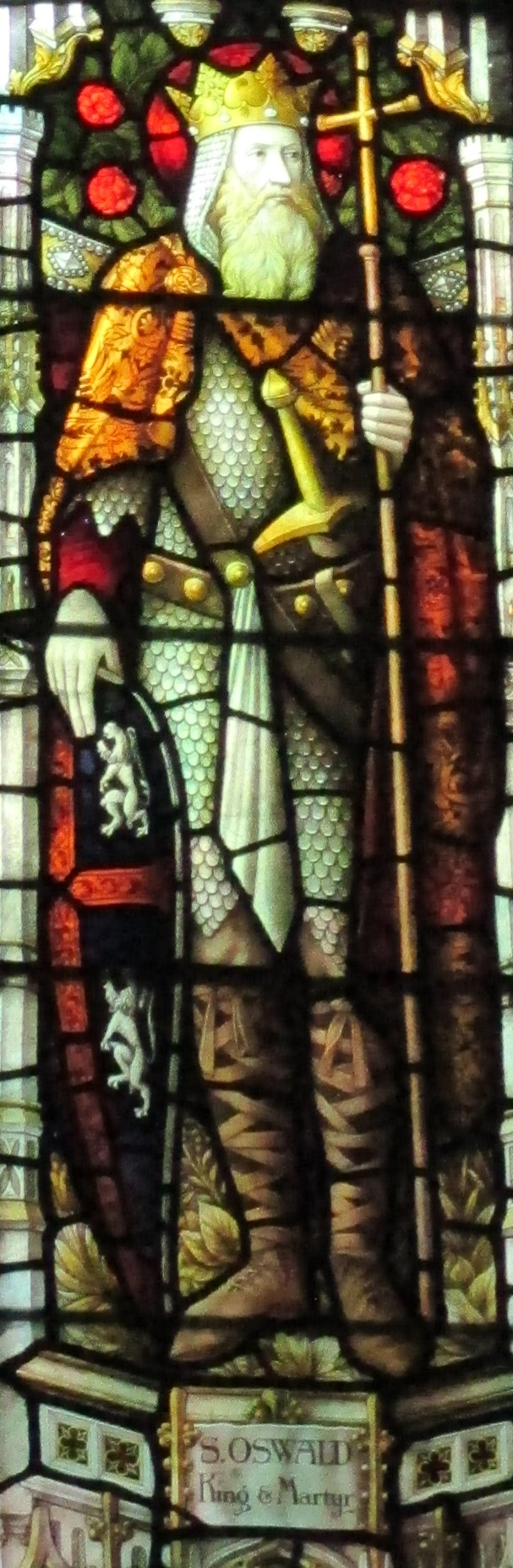 Detail of the left east window of the Regimental Chapel of the King's Own Royal Regiment in Lancaster Priory, Lancaster, Lancashire. It was produced c. 1910 by Shrigley and Hunt from designs by Edward Holmes Jewitt.